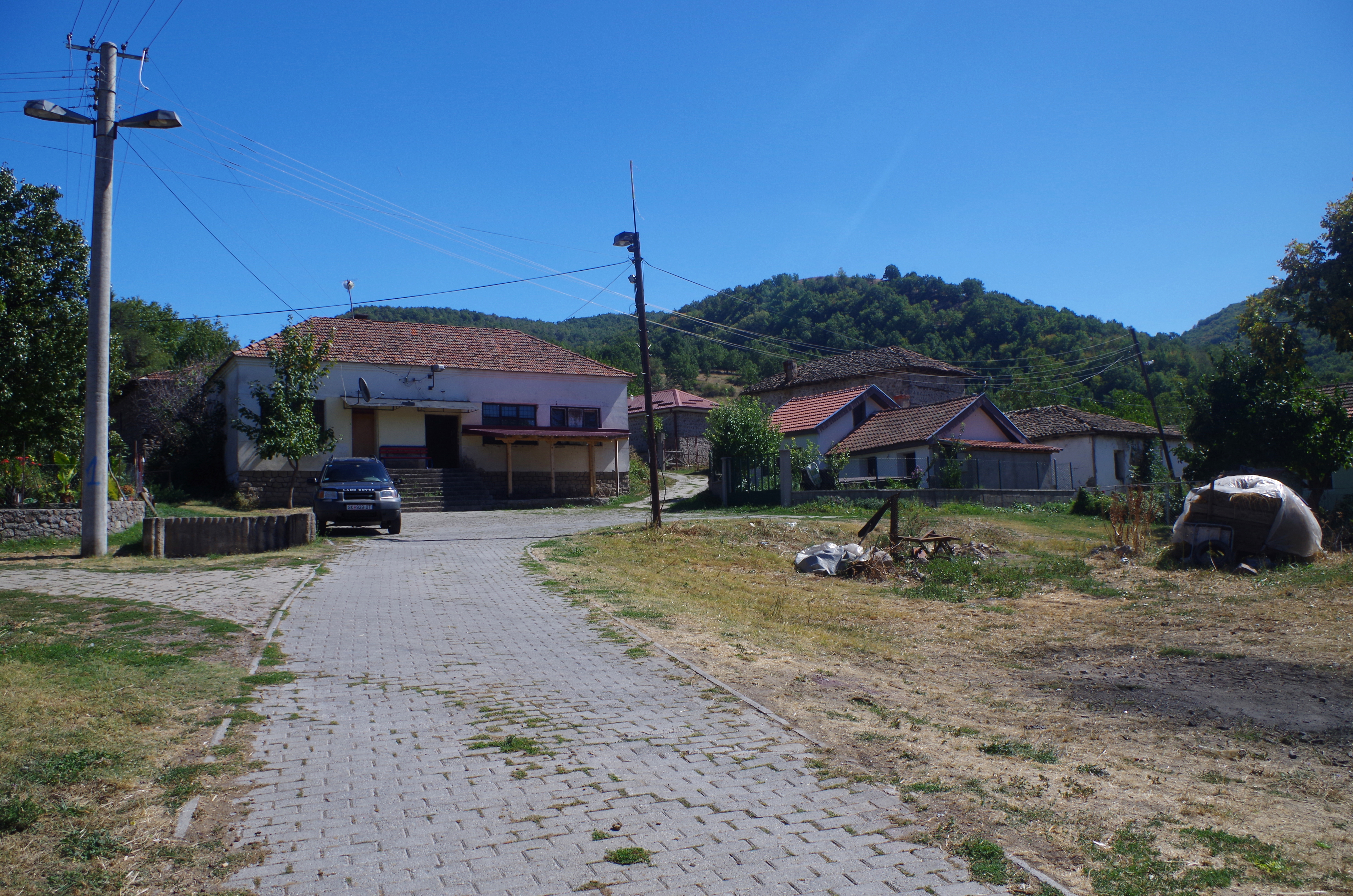 Mid-village of Gorna Bošava